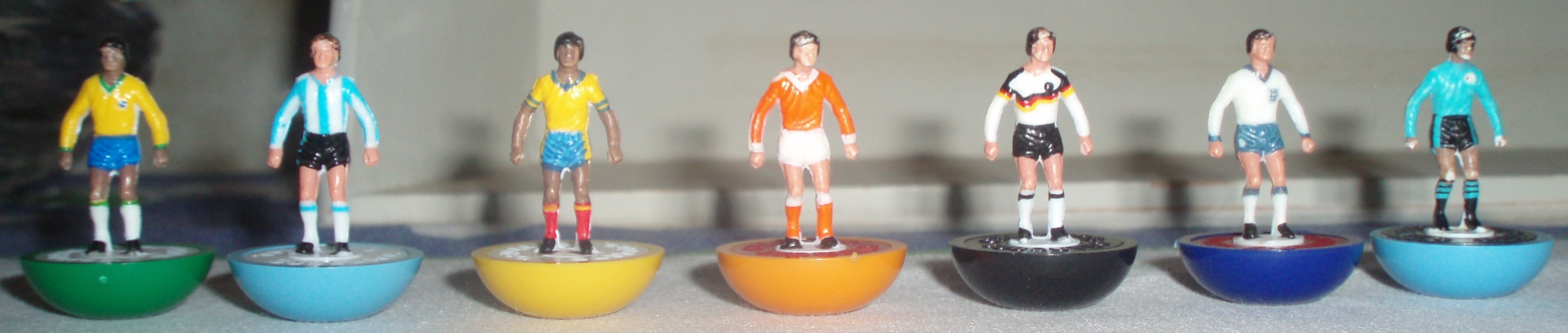 subbuteo players